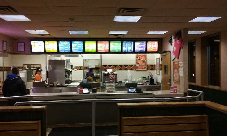 The lobby of a Mighty Taco location in Kenmore, New York